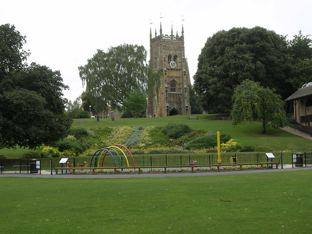 Sacred and secular at Evesham A view of Evesham Church, across a children's playground, from the riverside park.